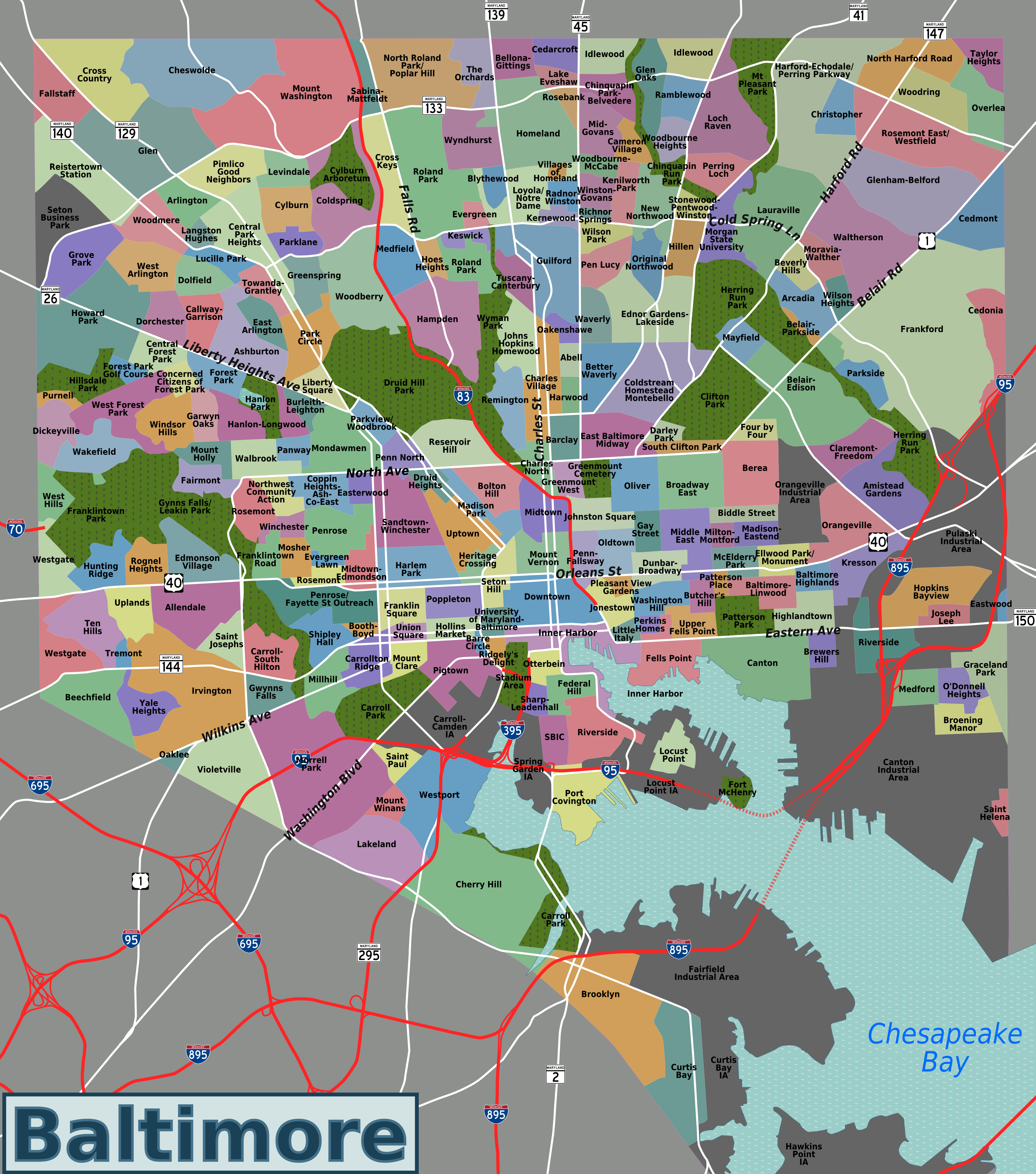 Map of Baltimore's neighborhoods, with official city-designated boundaries accurate to street level.